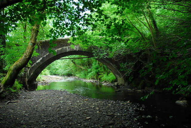 Stone bridge over the River Dulais at Crynant. Bridge over the River Dulais at Maesmawr which carried the old road from Crynant to Cilffrew.